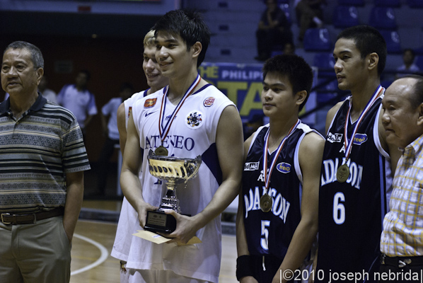 PCCL 2010 Finals Game 3: Ateneo Blue Eagles vs. Adamson Falcons, Dec. 6, 2010